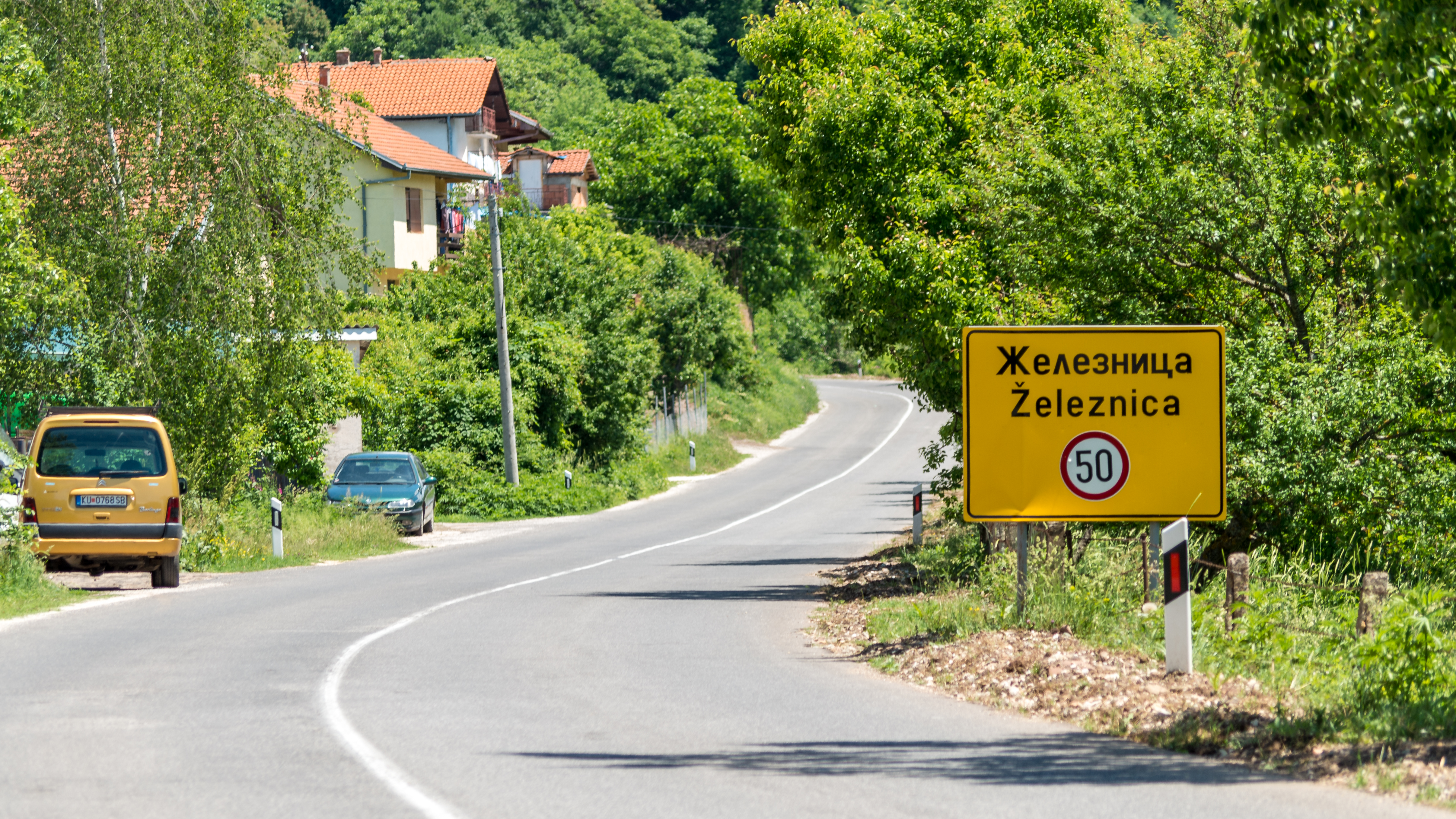 Road sign on the entry in the village Železnica